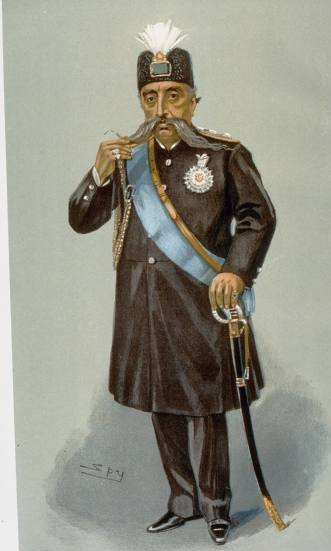 Caricature of Mozaffar ad-Din Shah Qajar (1853-1907), Shah of Persia.